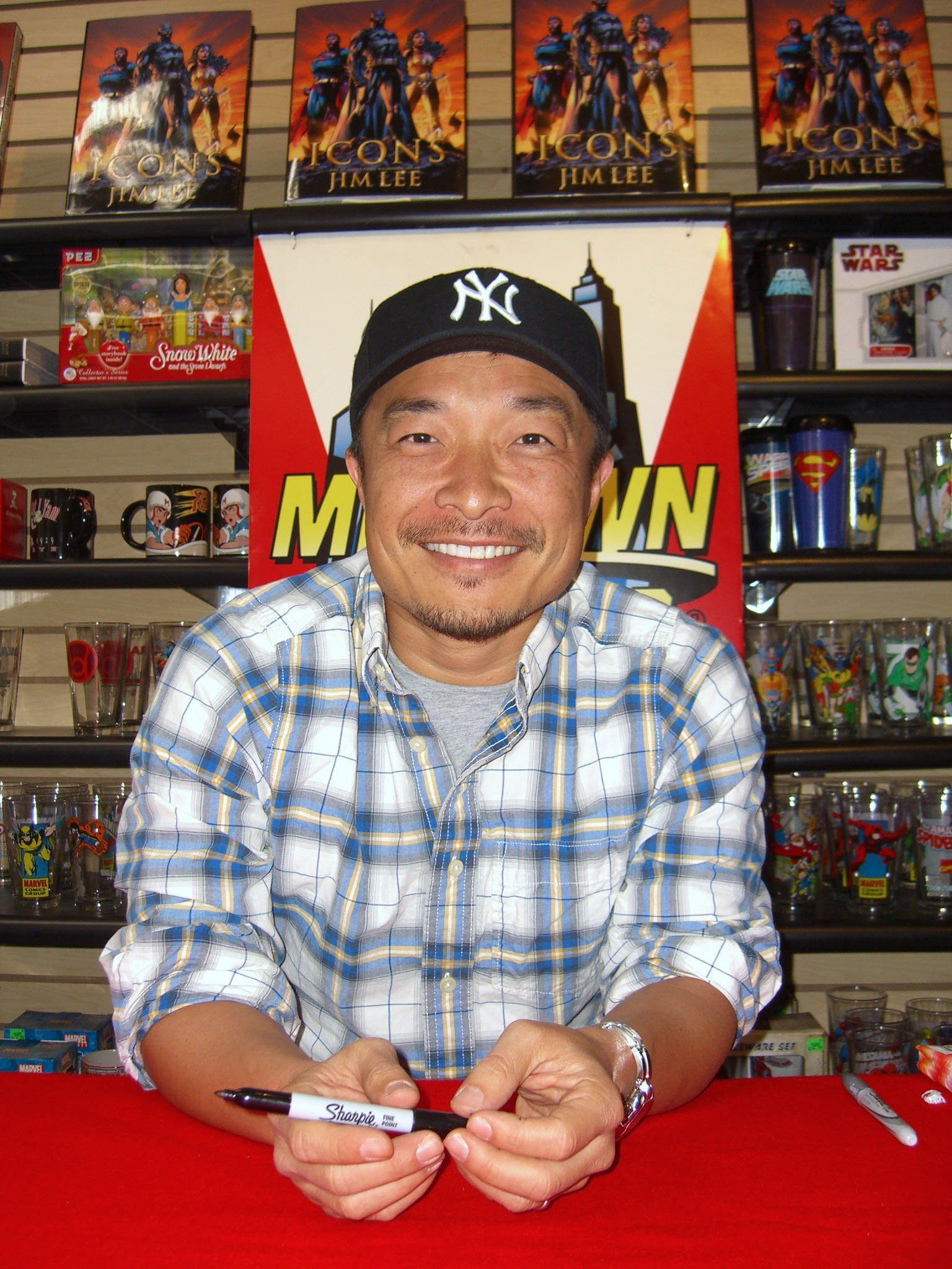 Comic book creator Jim Lee at a signing for his coffee table art book, Icons: The DC Comics & Wildstorm Art of Jim Lee, at Midtown Comics Downtown in Manhattan, December 19, 2010. This photo was created by Luigi Novi. It is not in the public domain, and use of this file outside of the licensing terms is a copyright violation.